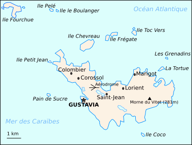 Saint-Barthelemy's map, Caribbean